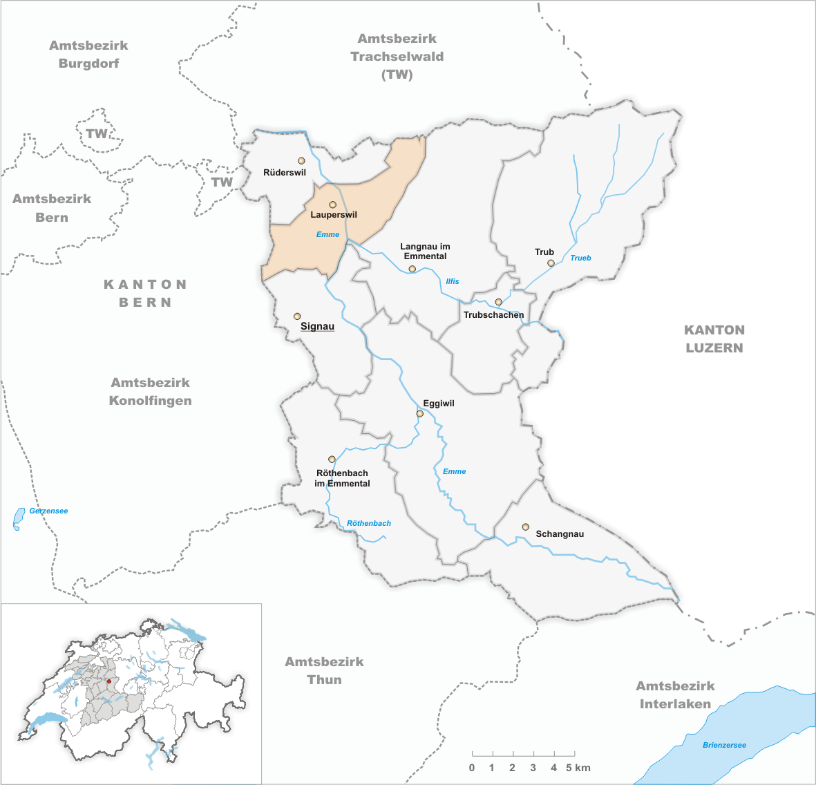 Municipality Lauperswil